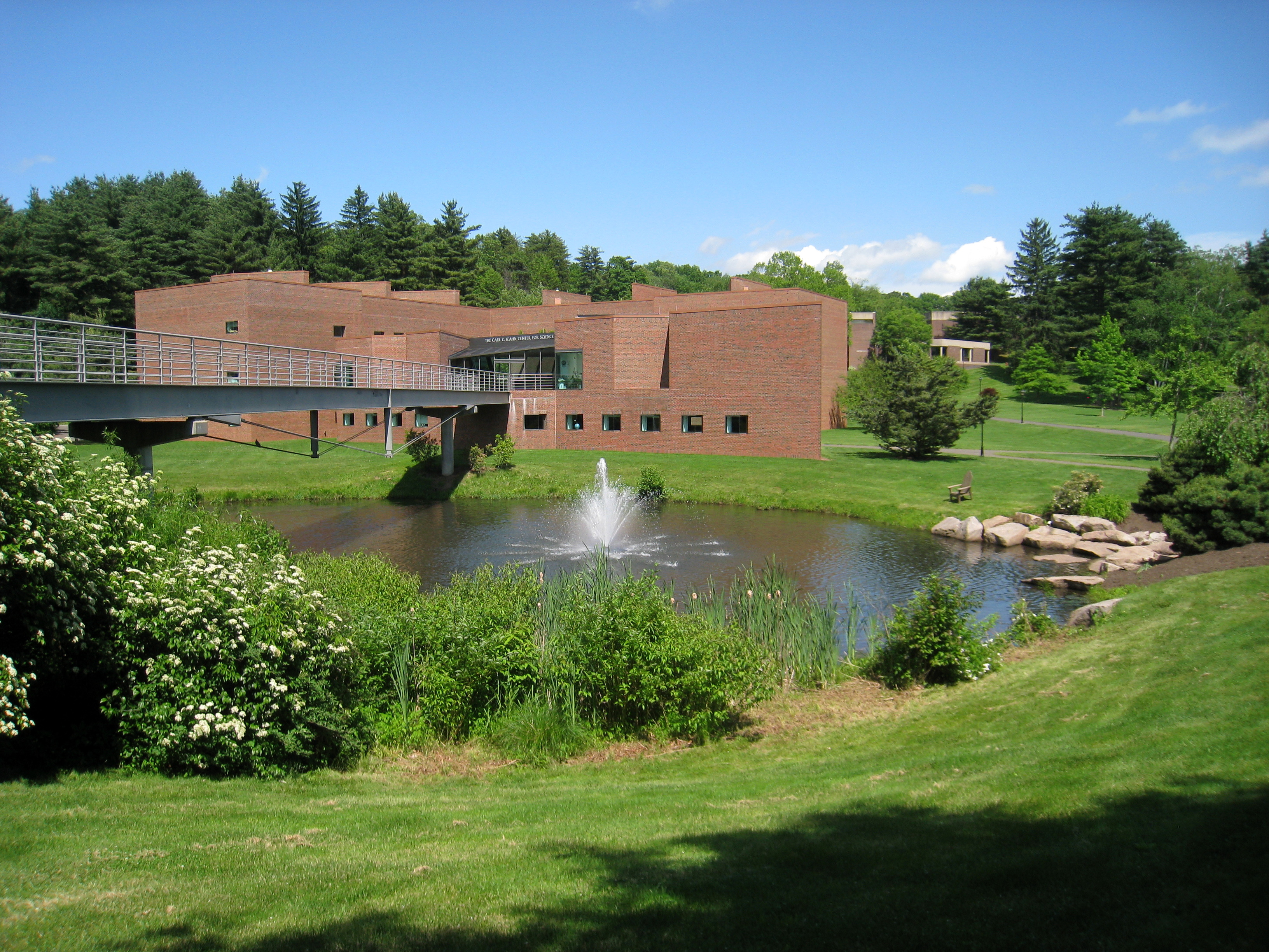 Carl C. Icahn Center for Science - Choate Rosemary Hall, Wallingford, Connecticut, USA. Architect I. M. Pei, 1989.